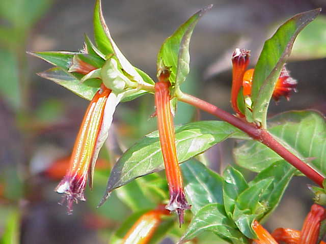 Species: Cuphea ignea Family: Lythraceae Image No. 4